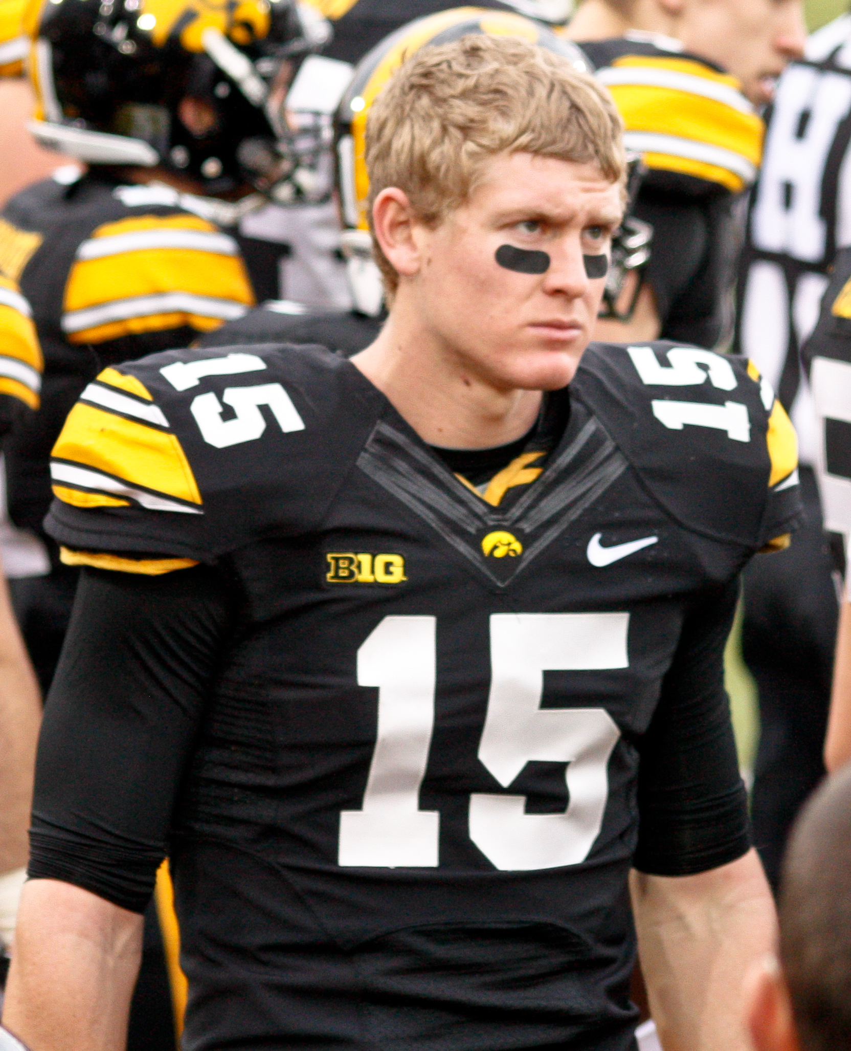 Hawkeye quarterback Jake Rudock along the sidelines. Photos from the first half of the University of Iowa vs. University of Wisconsin-Madison football game at Kinnick Stadium on November 22, 2014 The Hawkeyes lost to the Badgers 26-24.